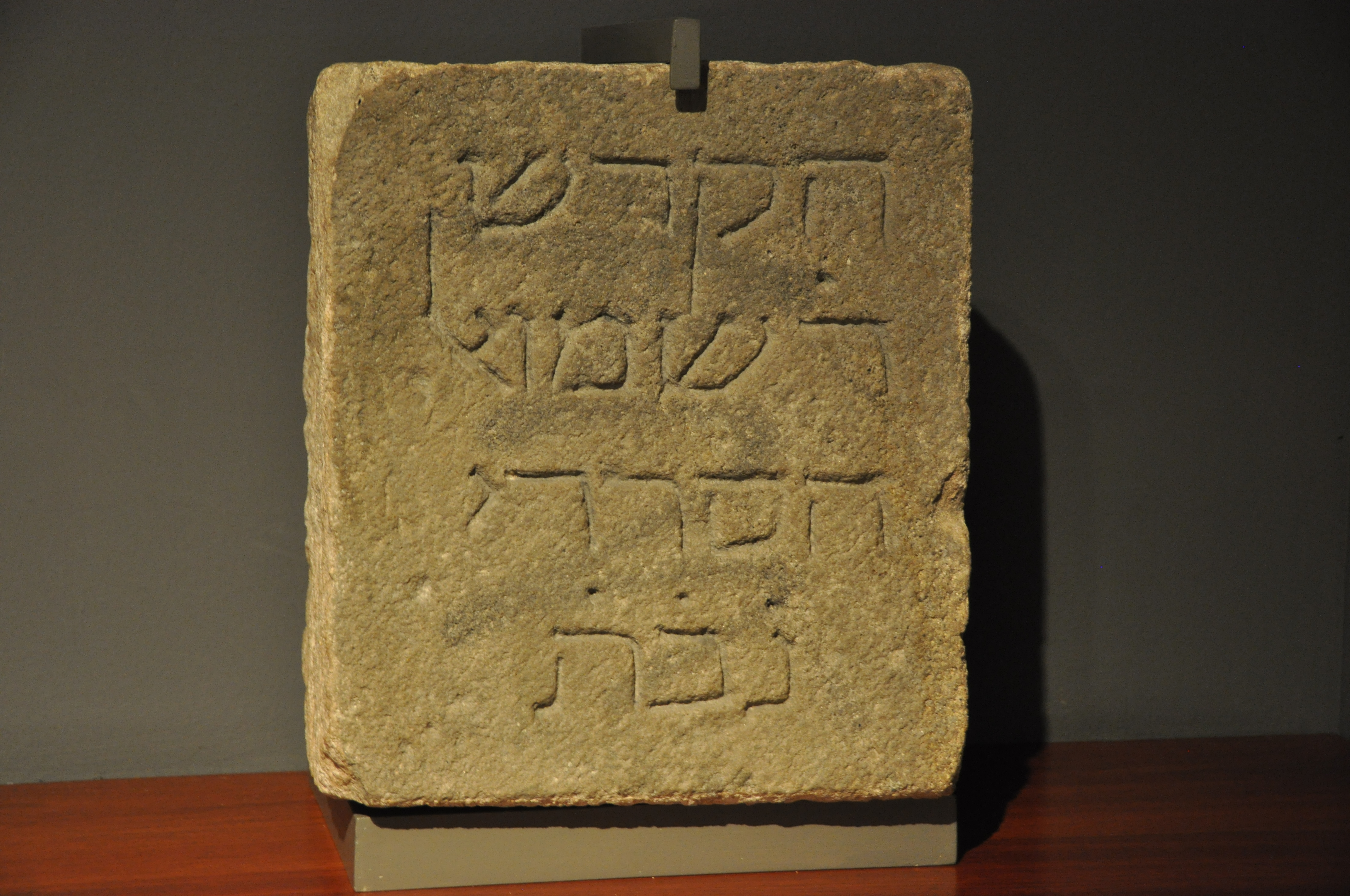 Commemorative inscription of the foundation of the jewish quarter ("Call") of Barcelona hospital. Stone. 13tc. C. MUHBA. Barcelona City History Museum.